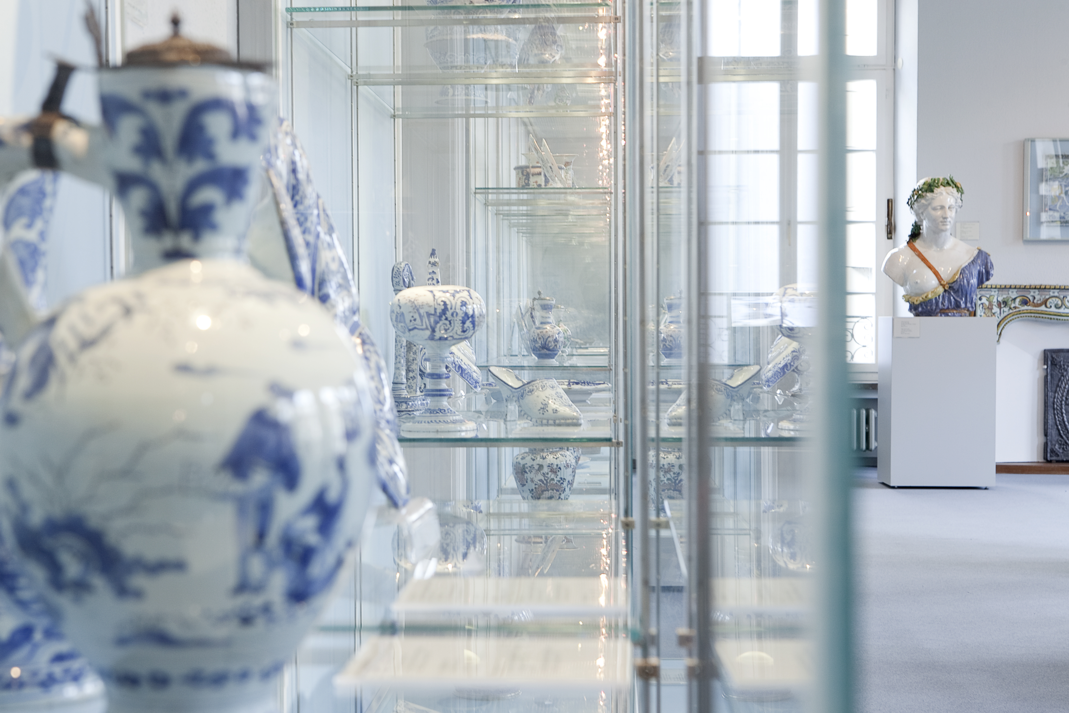 Fayencen im HETJENS - Deutsches Keramikmuseum, 2012